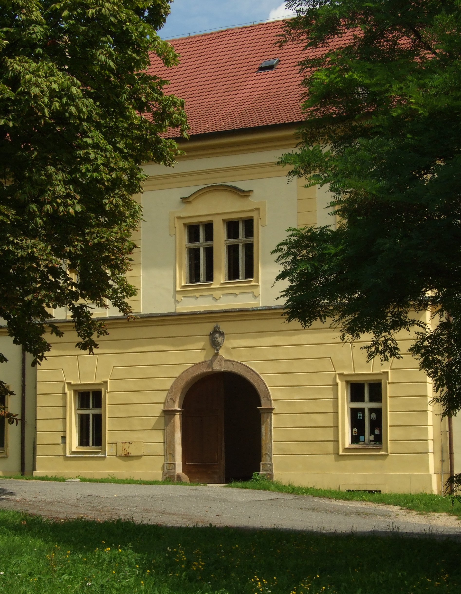 Kornhauz castle in the town of Mšec - enterance, Central Bohemian Region, CZ